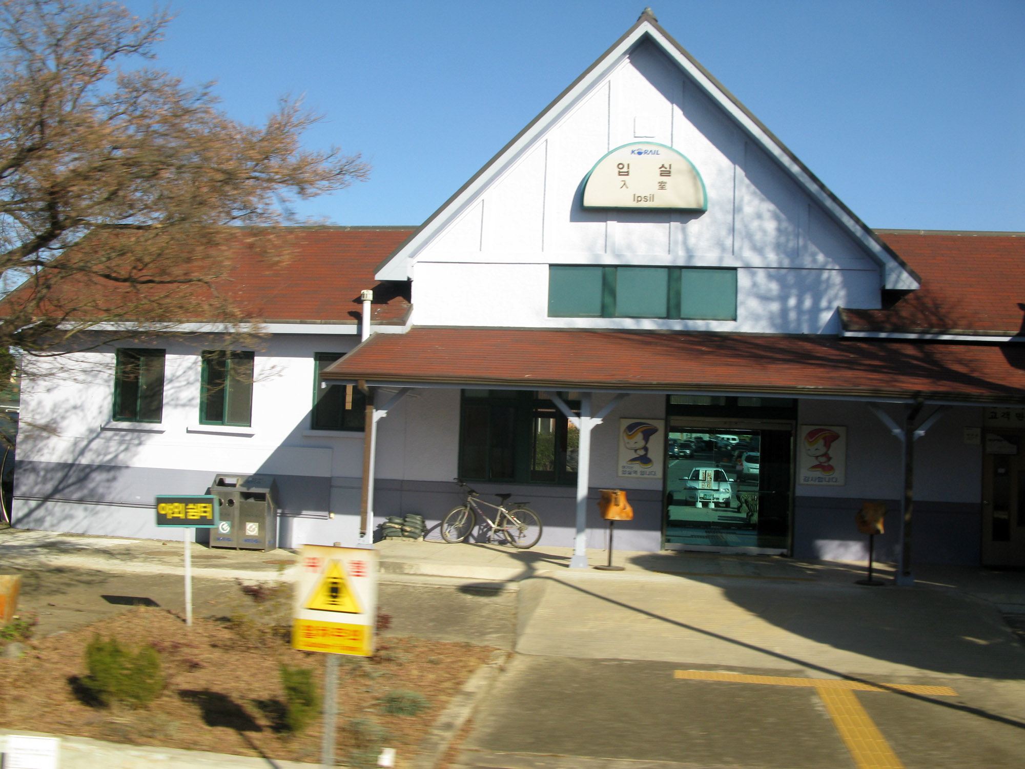 Donghaenambu Line Ipsil Station